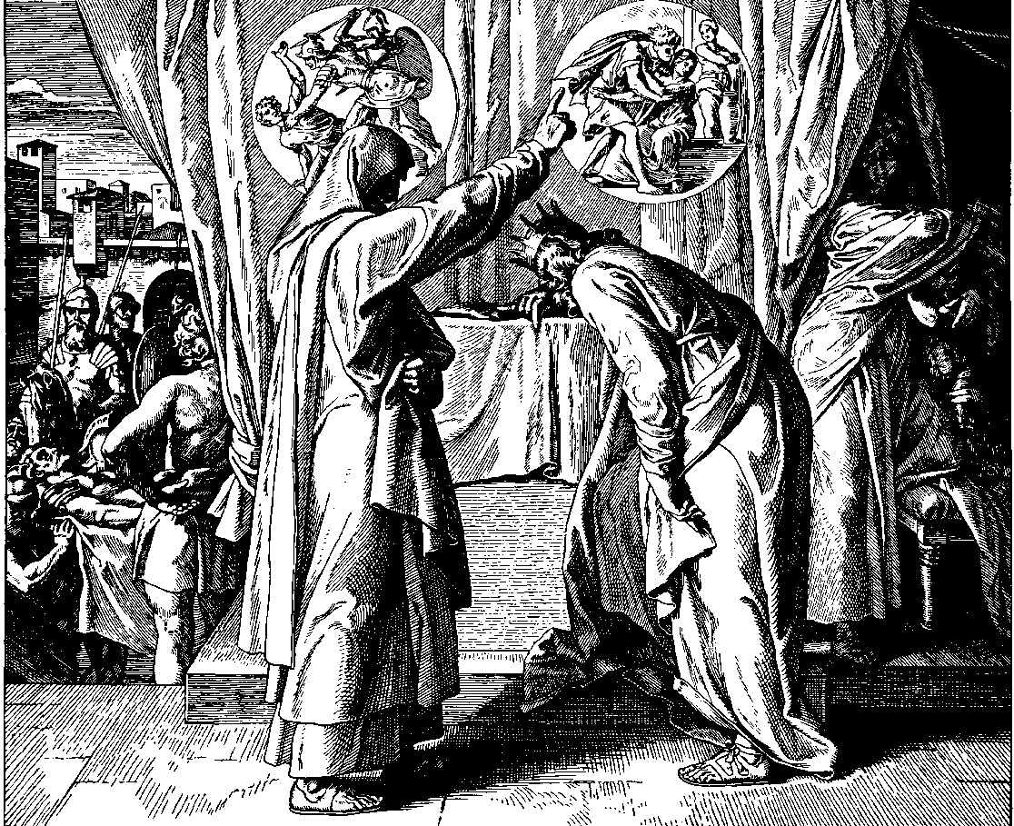 Prophet Nathan rebukes David for adultery with Bathseba. Woodcut illustration.